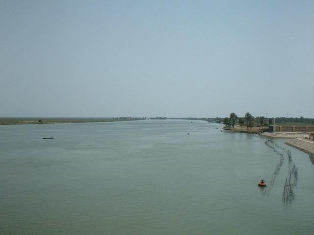 Shatt al-Arab near Basra city in Iraq (Note:Both sides are in Iraq)